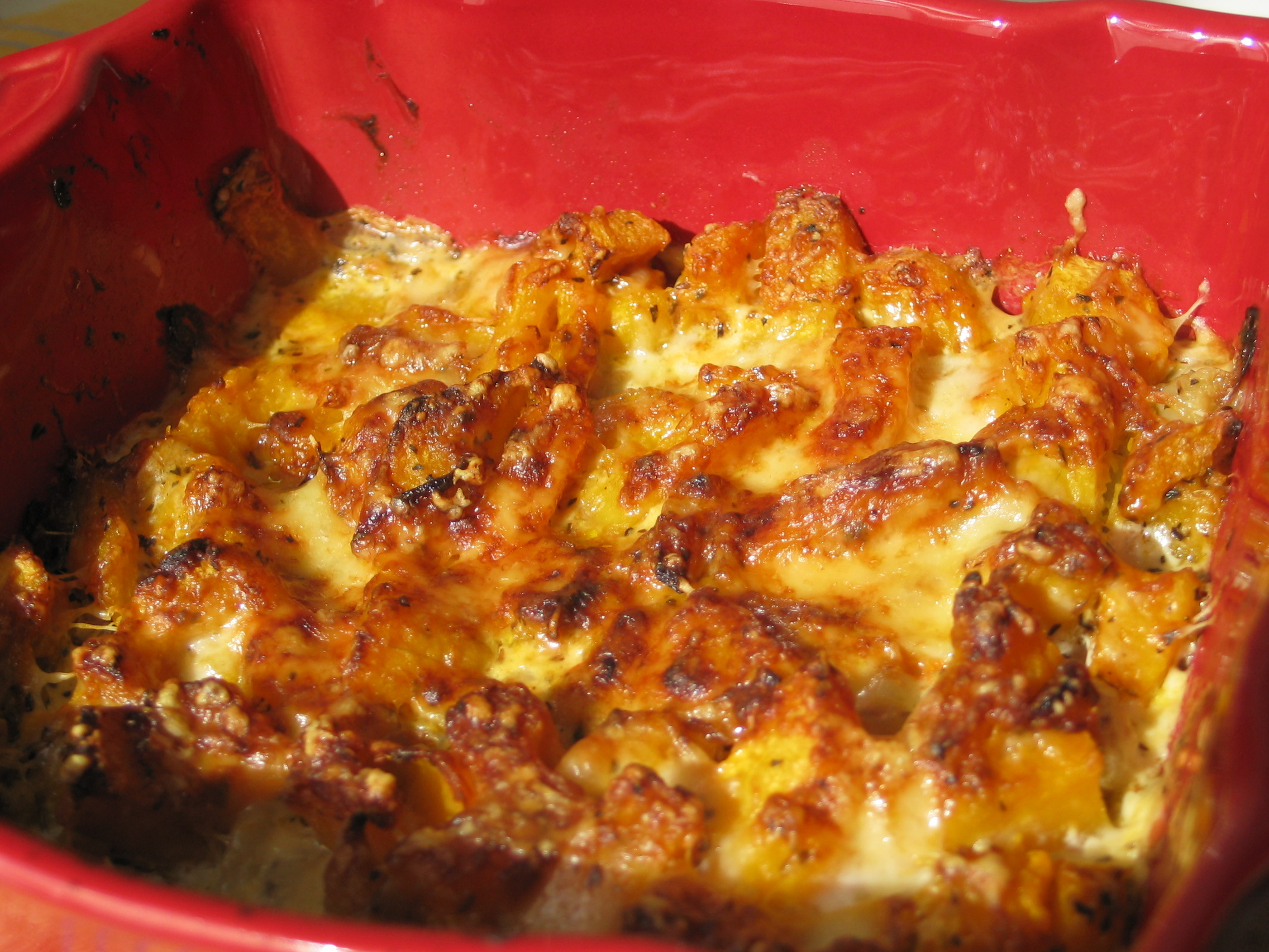 Squash gratin